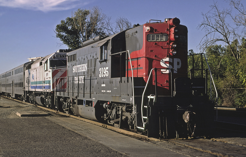 Shortly after CalTrain's new F40's turned up, a problem was discovered with their brakes. SP's power was recalled and double headed with the F40's. August 1985